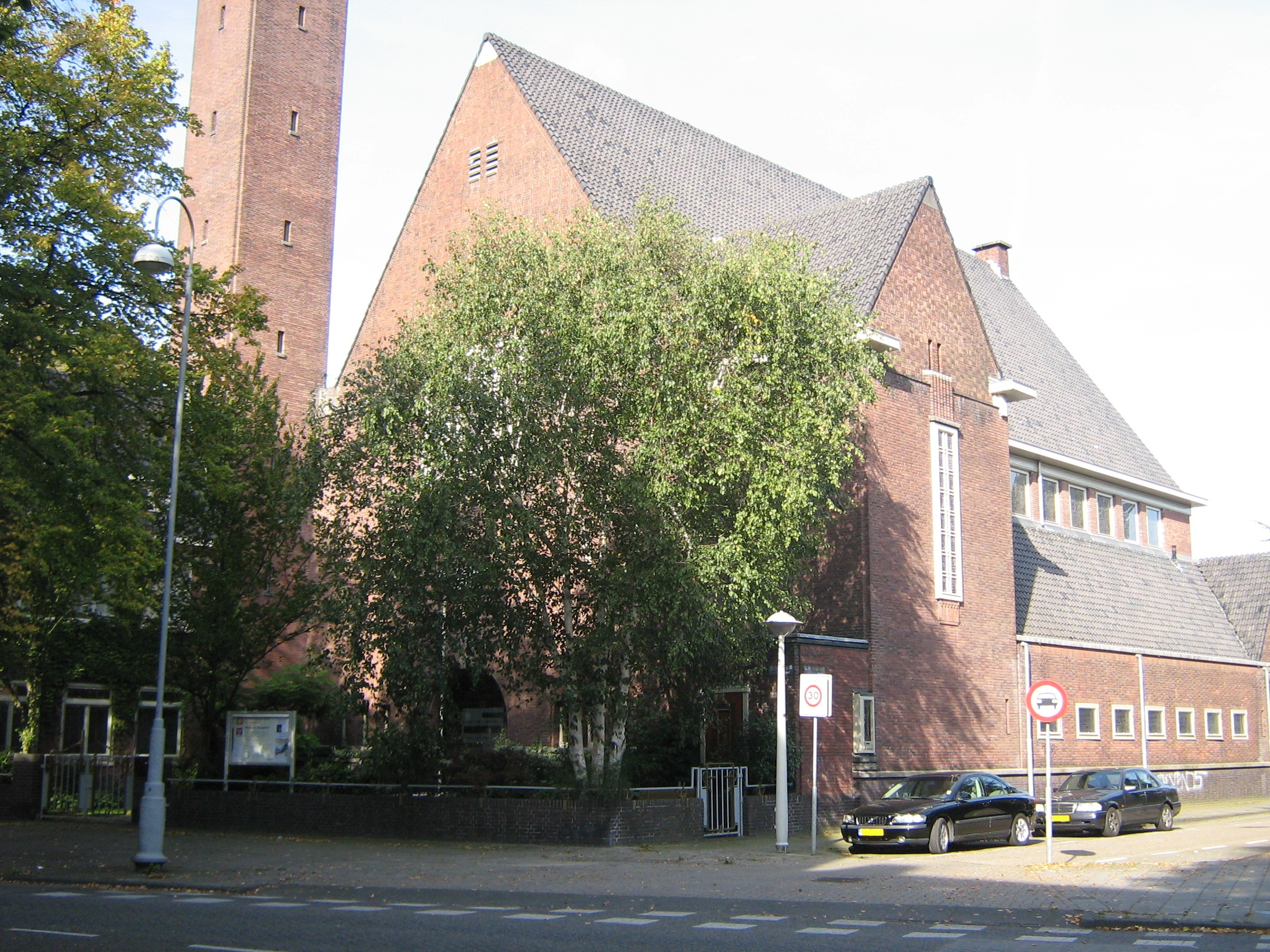 Willem de Zwijgerkerk ("Church of William the Silent") at 14 Olympiaweg, Amsterdam, the Netherlands, seen from the east. See File:Tower_14_Olympiaweg_Amsterdam_Netherlands.jpg for a close-up of the tower.